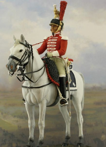 Napoleon's Cavalry. 4 Reg ,Trumpeter.Year 1809